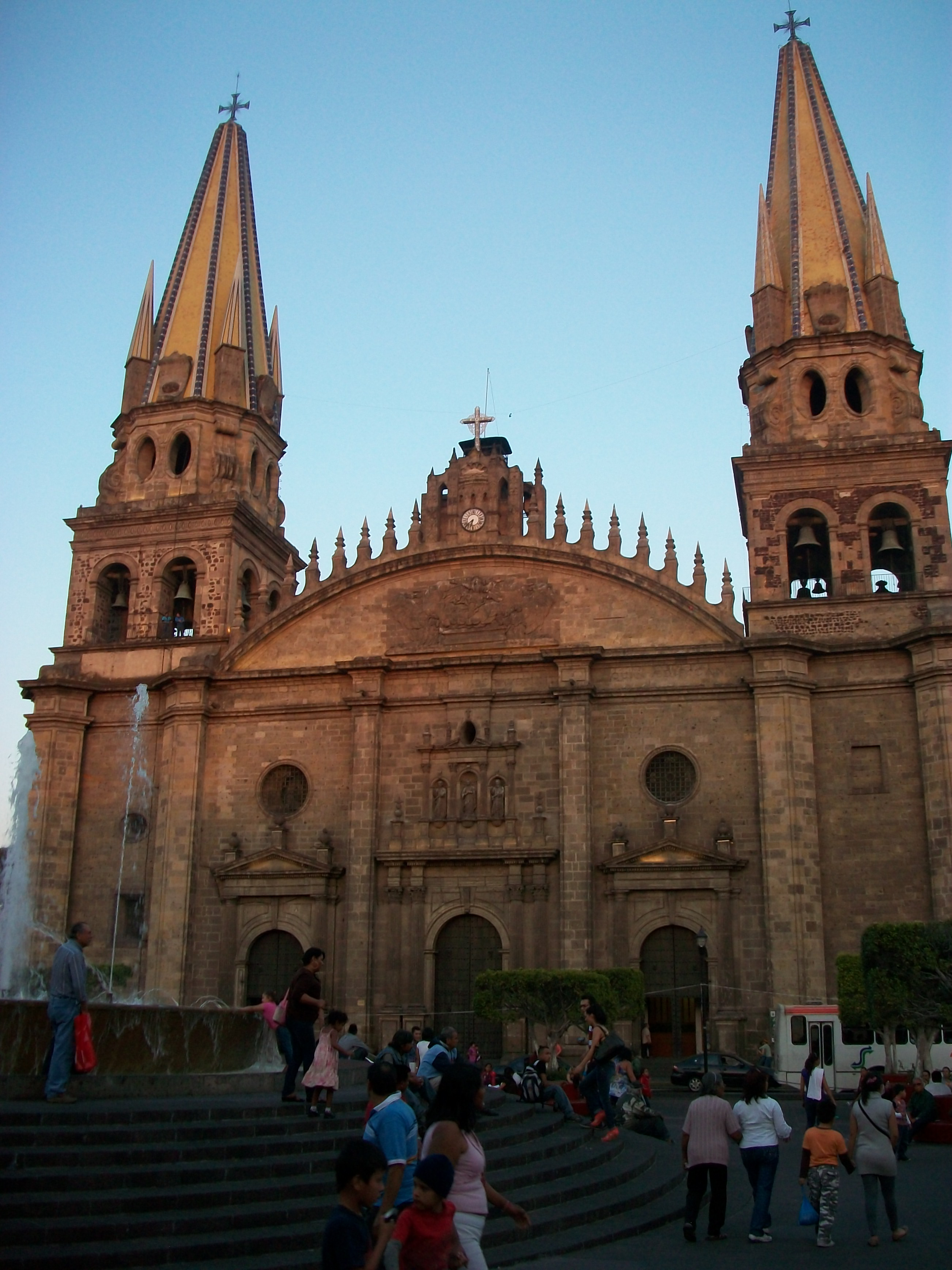 Stone facade and bell towers — Cathedral of Guadalajara, México.